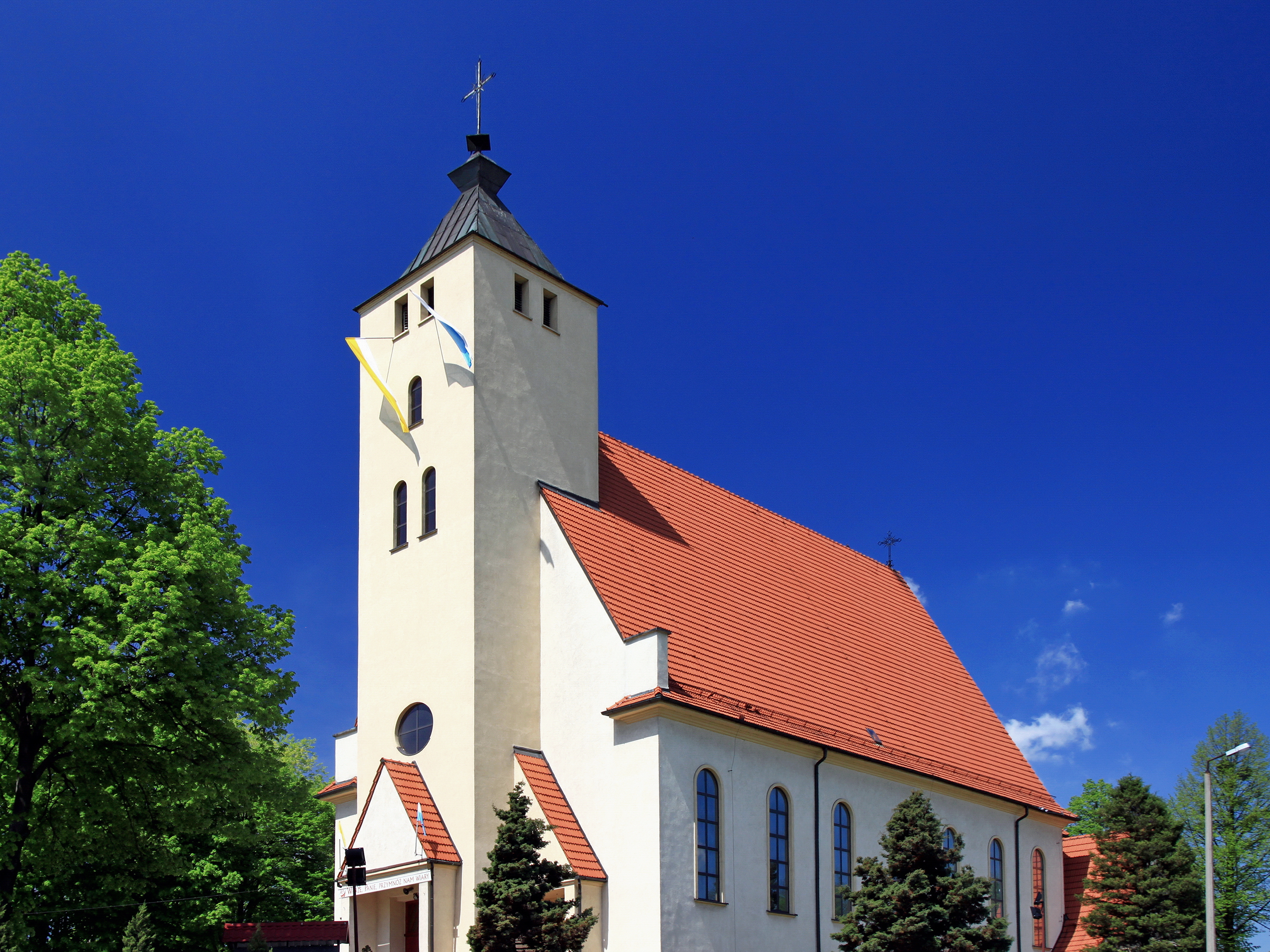 Our Lady of the Rosary parish church in Jastrzębie-Zdrój (Moszczenica)